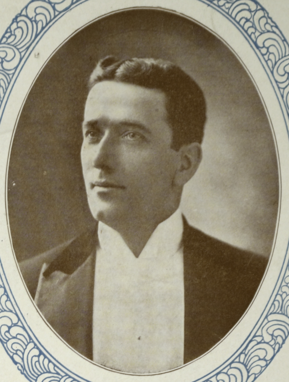 Portrait of musician Barney Fagan